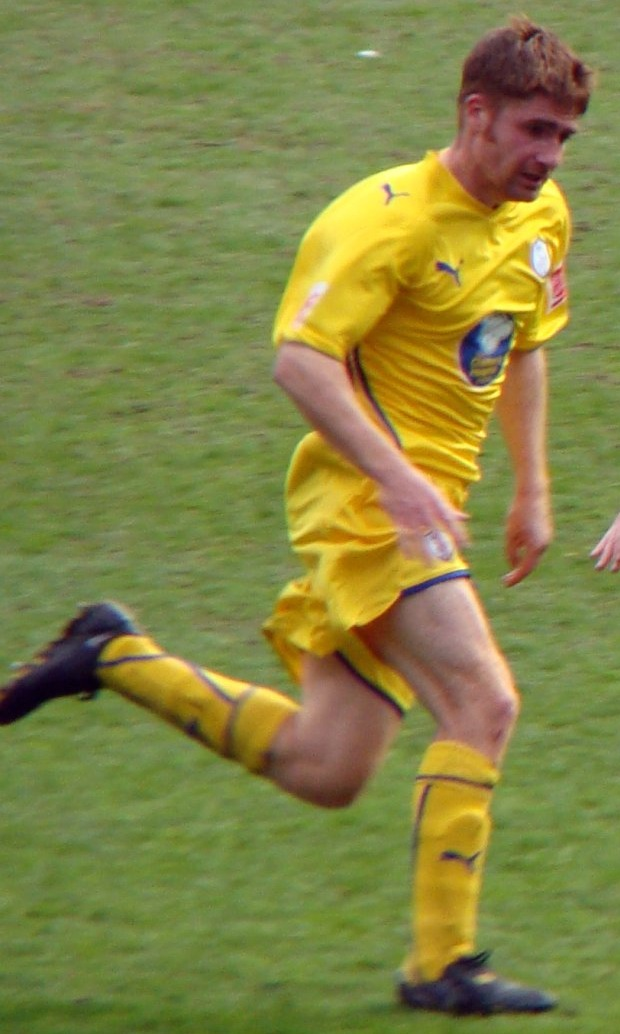 24/04/10 Cardiff V Sheffield Wednesday, Championship, Cardiff City Stadium, Cardiff, Wales